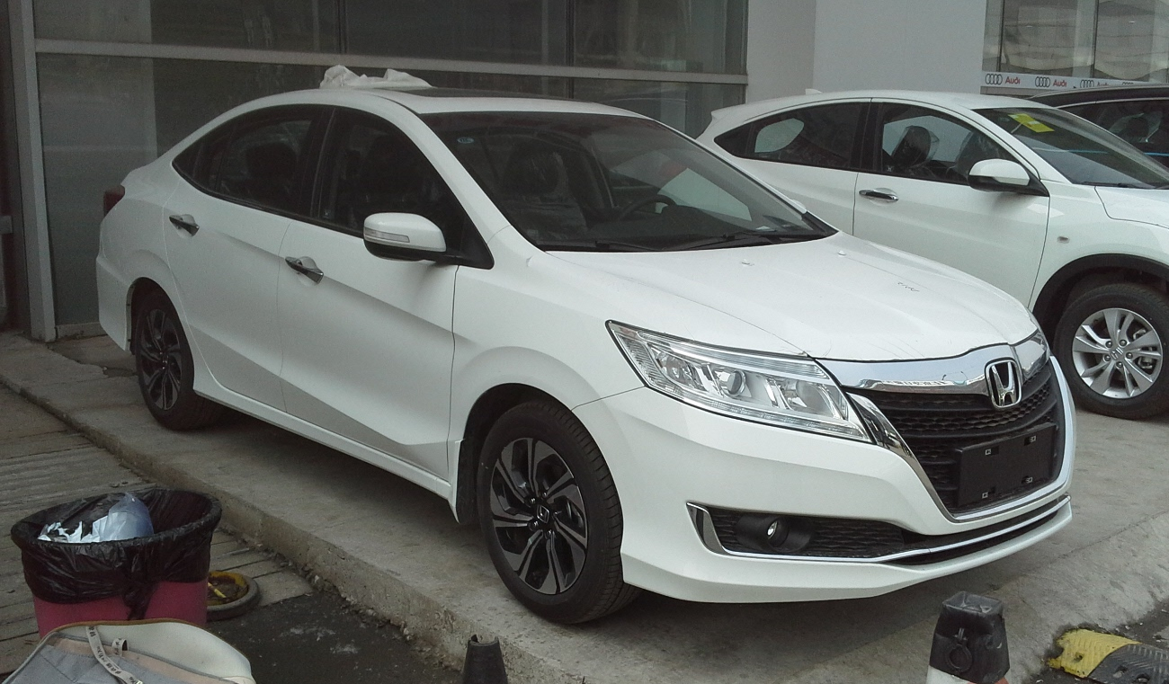 Honda Crider facelift photographed in Beijing, China.